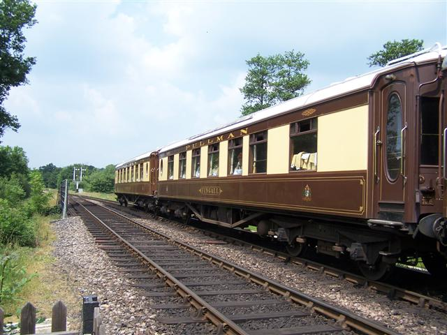 Pullman Fingall on the Golden Arrow, Bluebell Railway